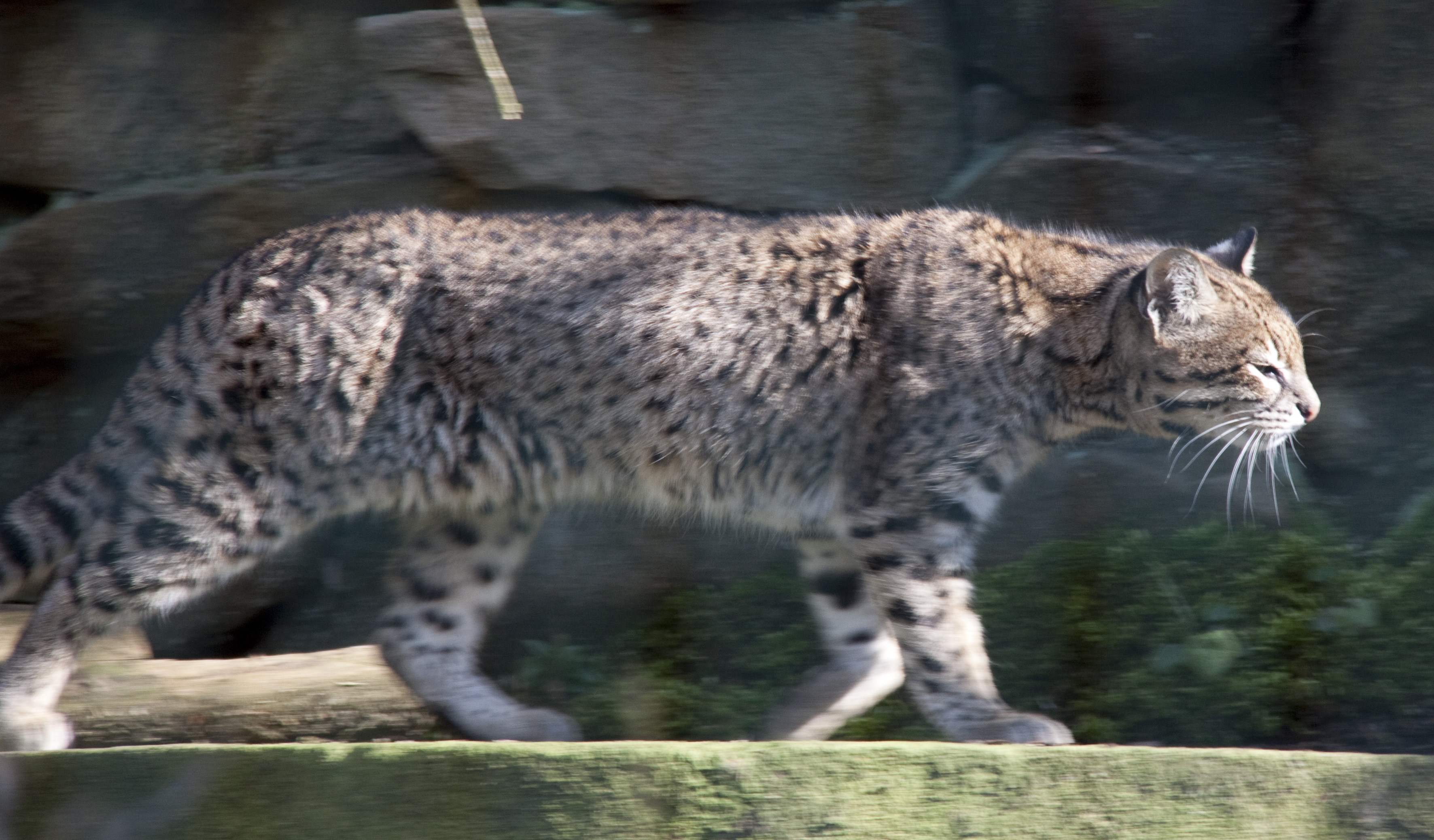 Geoffroy's Cat (Leopardus geoffroyi)